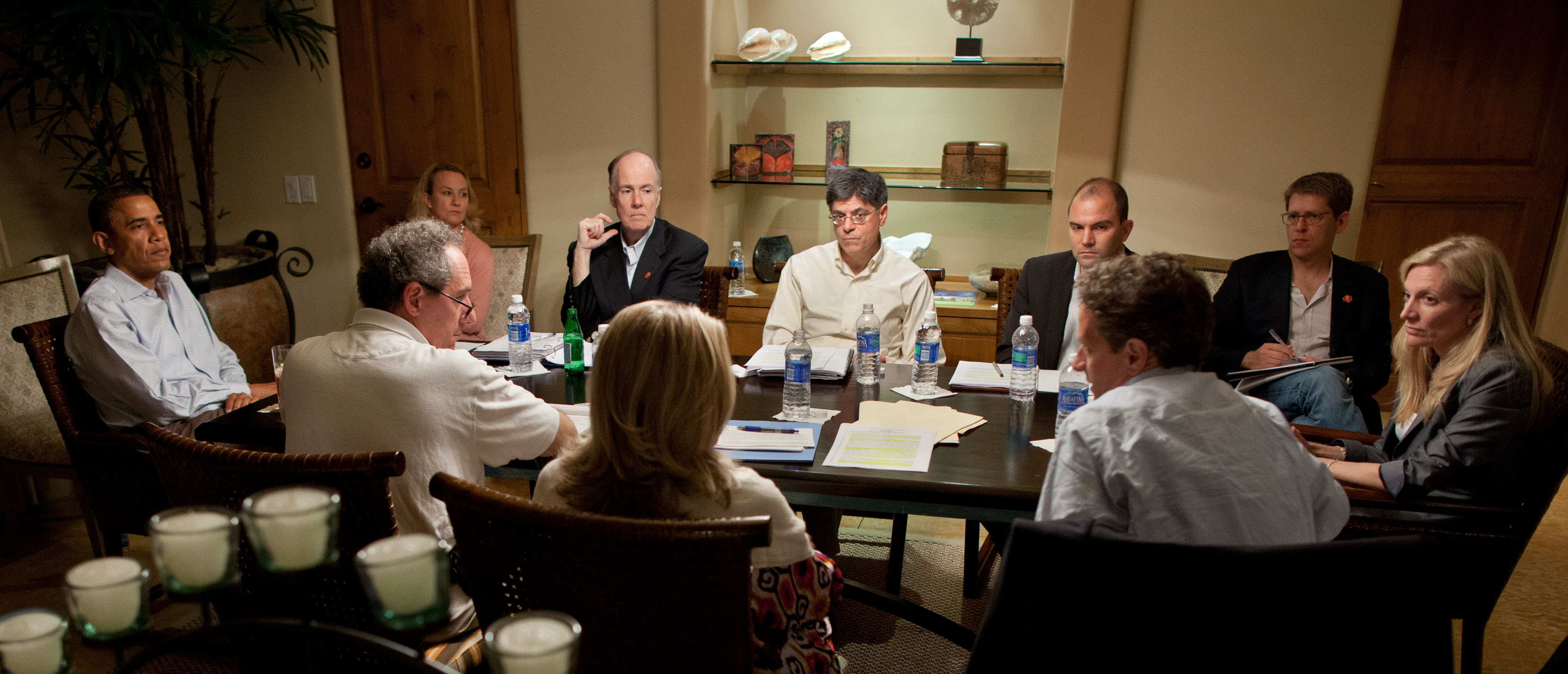 United States President Barack Obama is briefed by senior advisors at the Esperanza Resort in San José del Cabo, Mexico, on the eve of the G20 Summit on 17 June 2012. Briefing, clockwise from the President, are: Alice Wells, Senior Director for Russian Affairs, NSS; National Security Advisor Tom Donilon; Chief of Staff Jack Lew; Ben Rhodes, Deputy National Security Advisor for Strategic Communications; Press Secretary Jay Carney; Lael Brainard, Under Secretary of the Treasury for International Affairs; Treasury Secretary Tim Geithner; Secretary of State Hillary Rodham Clinton; and Mike Froman, Deputy National Security Advisor for International Economics.